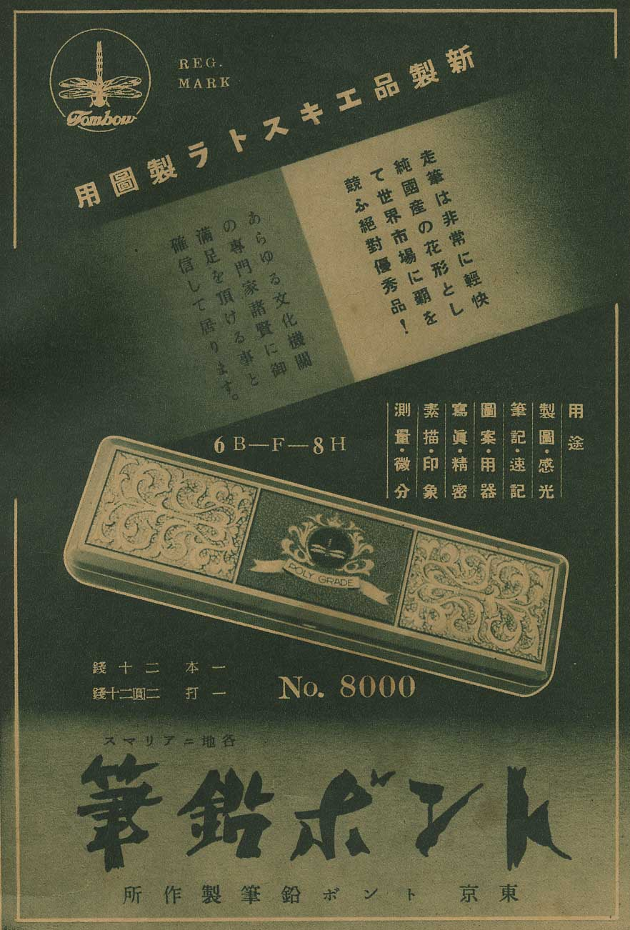 The ad of the Tombow Pencil Inc.